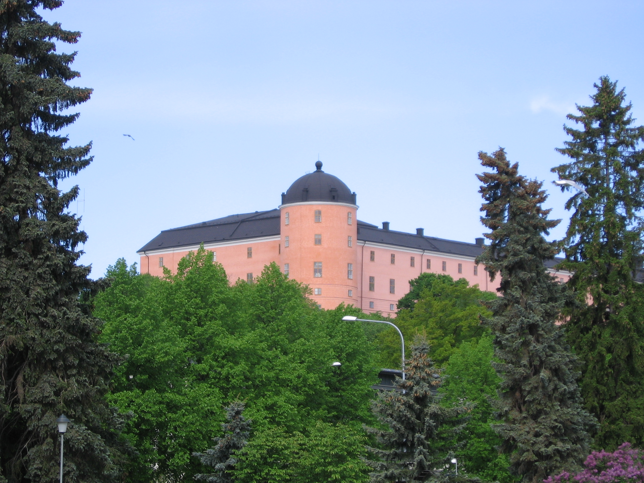 South Tower at Uppsala Castle. The picture is taken from Stadsparken.